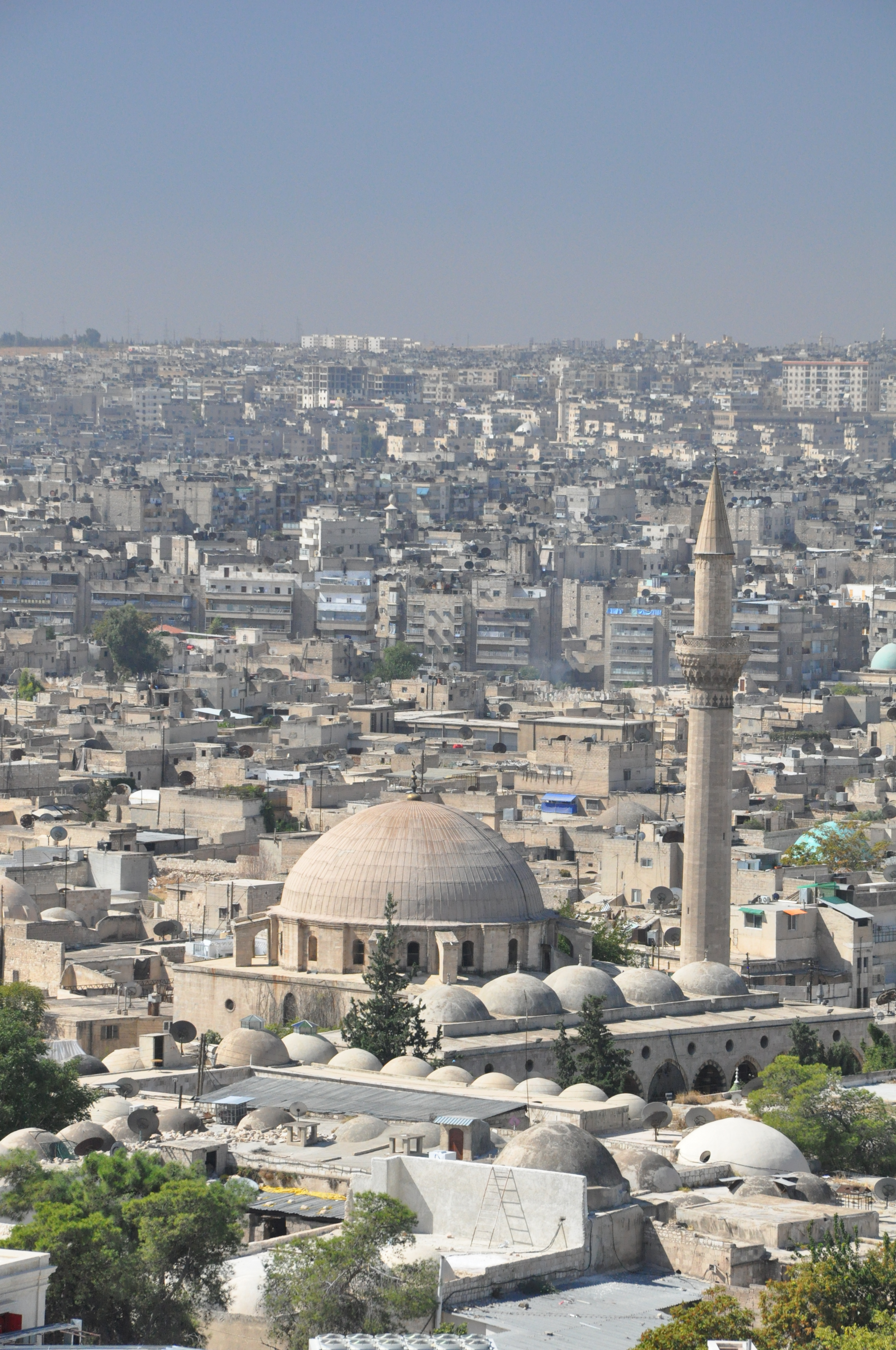 Al-Adiliyah mosque Aleppo